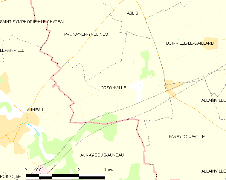 Map of French municipality Orsonville